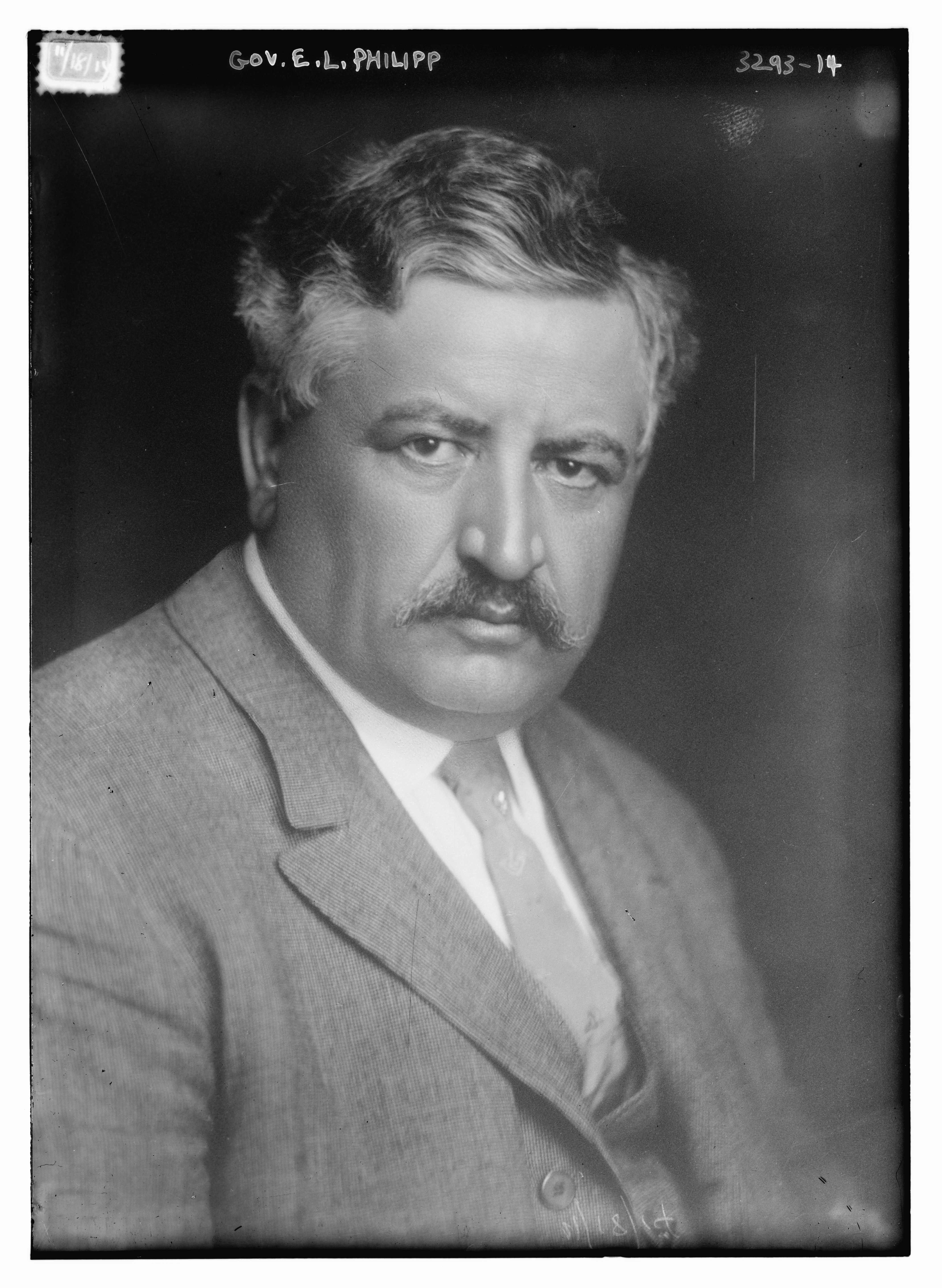 Title: Gov. E.L. Phillip Abstract/medium: 1 negative : glass ; 5 x 7 in. or smaller.